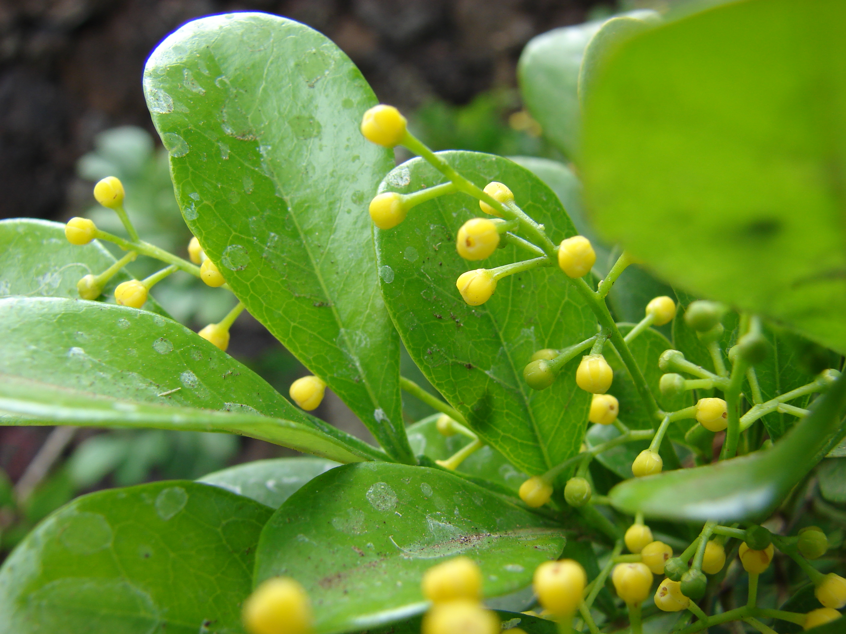 Aglaia odorata (leaves and flowers). Location: Maui, Kihei